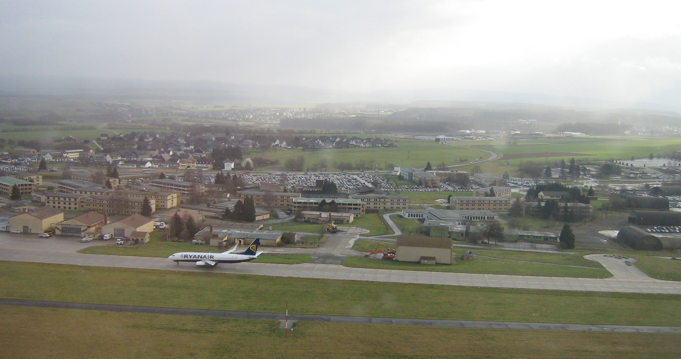 base infrastructure at hahn airport